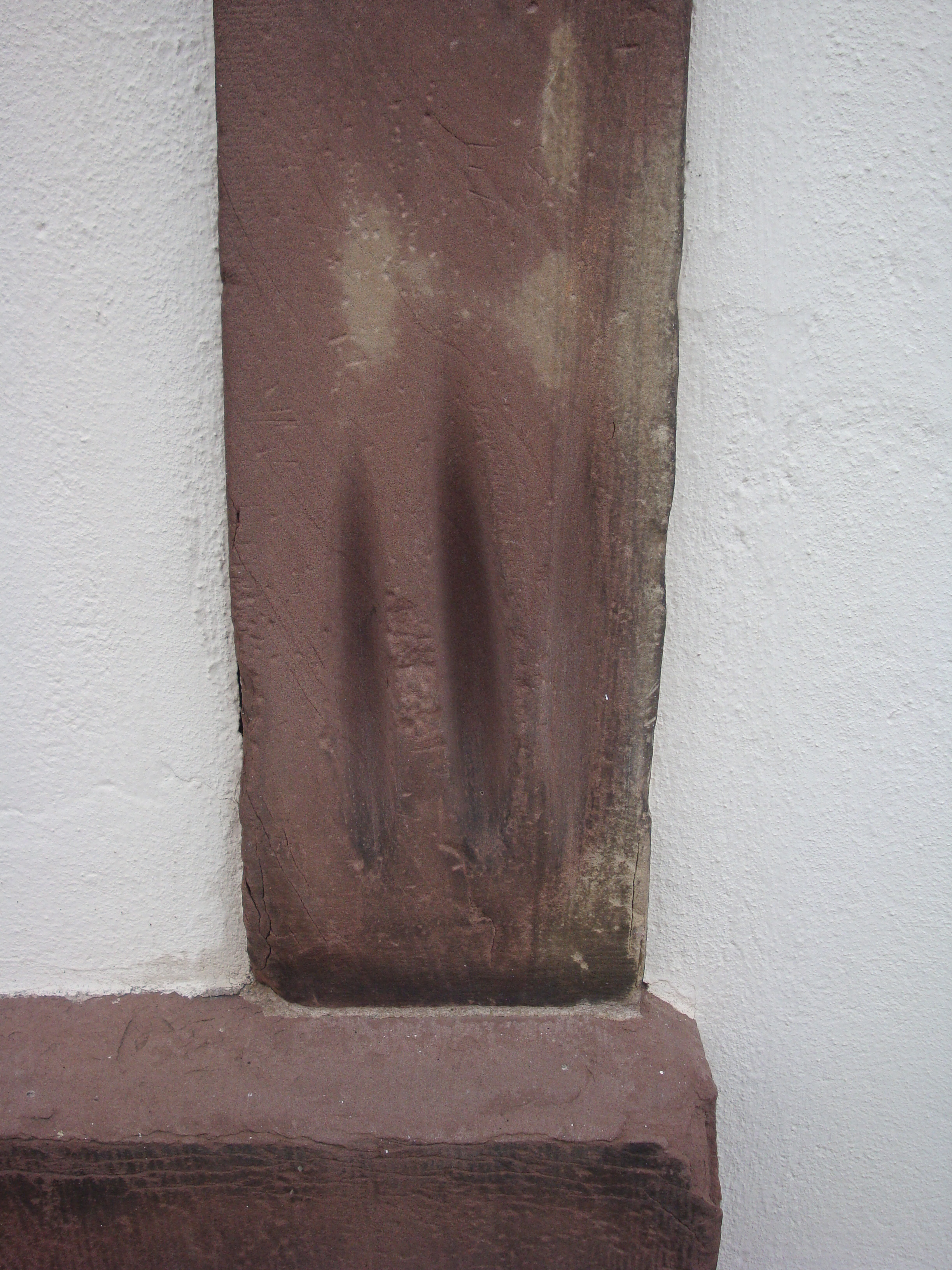 Dettwiller: devil's claws